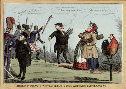 Caricature of Wellington as a throwing cock